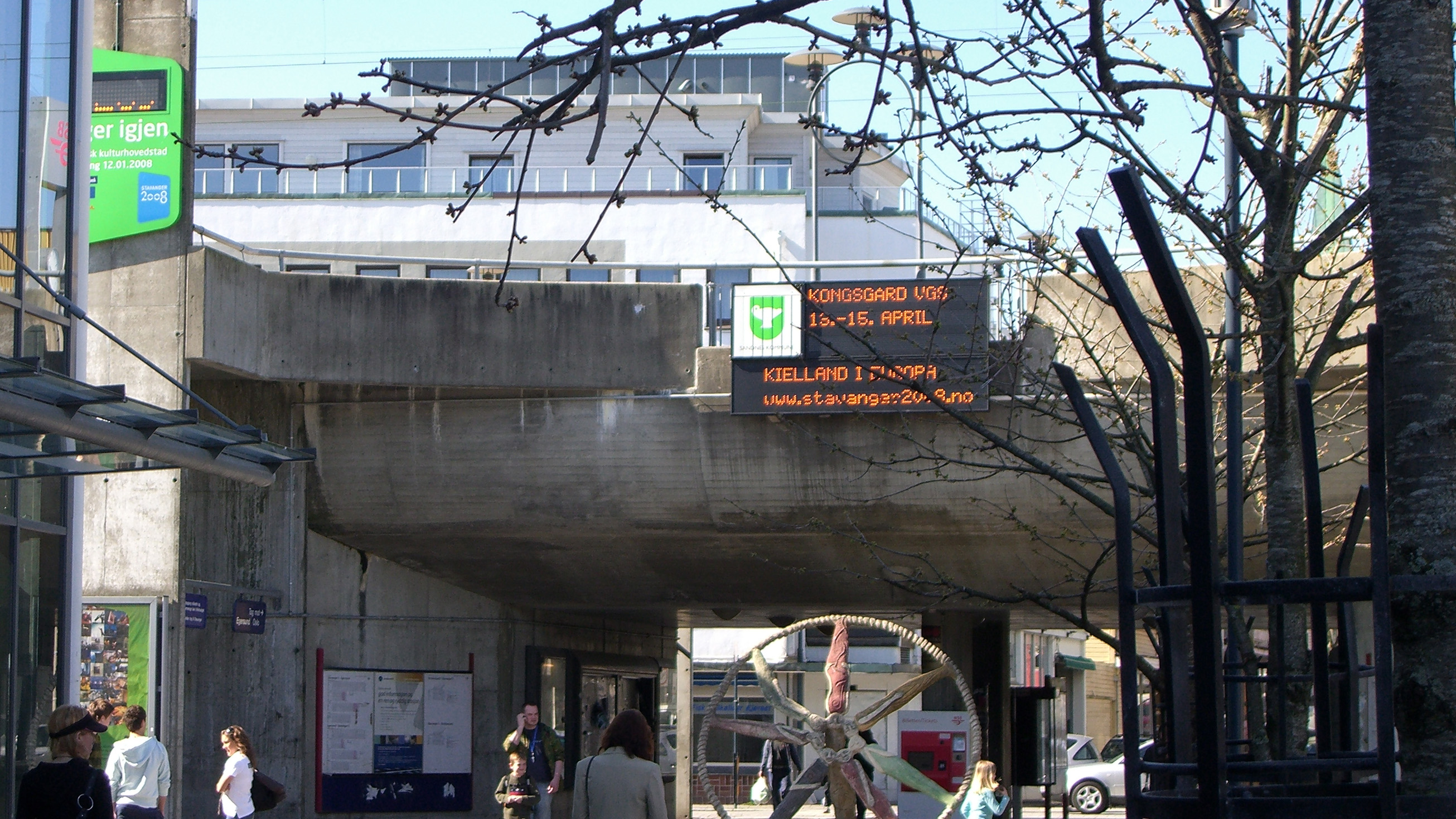 Stavanger2008 information displays in Sandnes